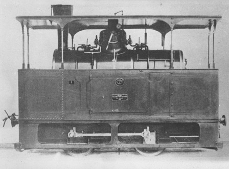 Esslingen steam lokomotive, 1882